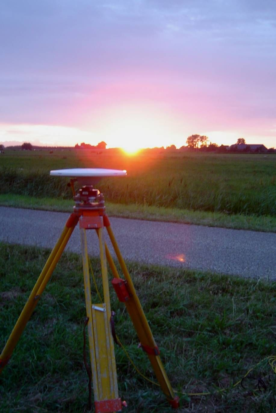 GPS measurements in The Netherlands